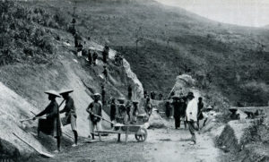 600 mm gauge Phủ Lạng Thương-Lạng Sơn line in Vietnam